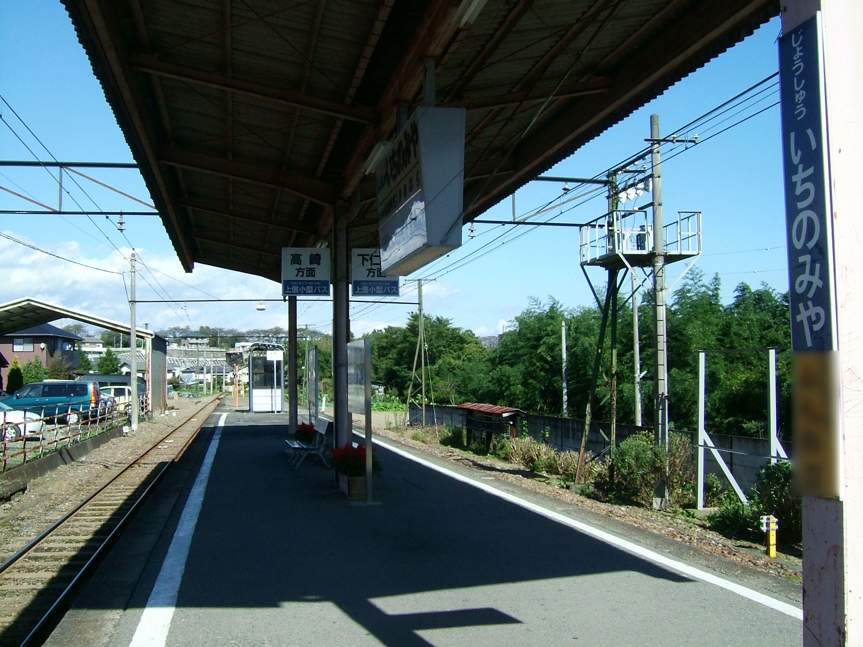 Jōshū-Ichinomiya Station platform (Jōshin Dentetsu Jōshin Line)